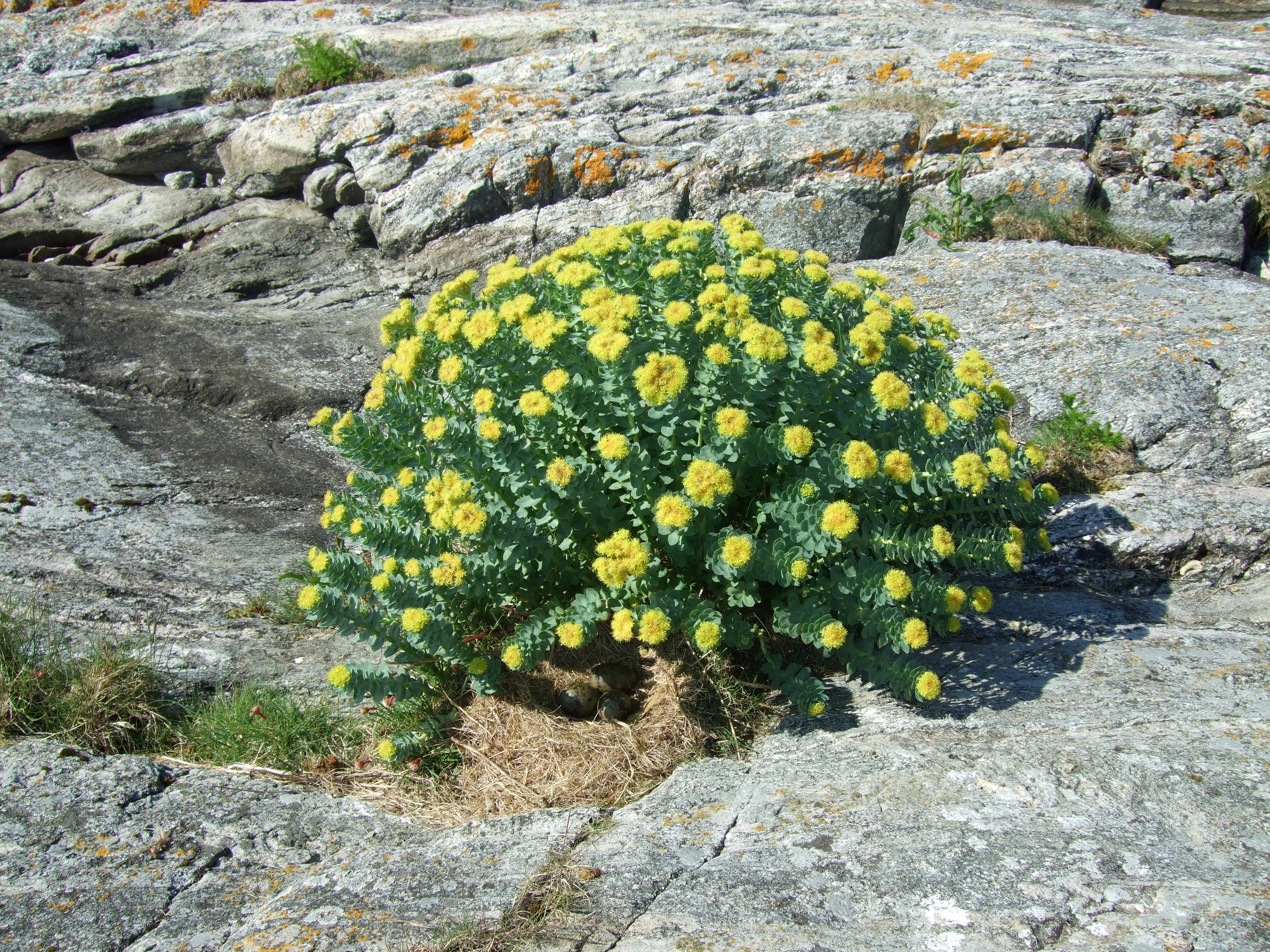 A bush of Golden Root (Rhodiola rosea) with a nest of Herring Gull eggs underneath. Picture taken on a small island in Steigen, Norway.